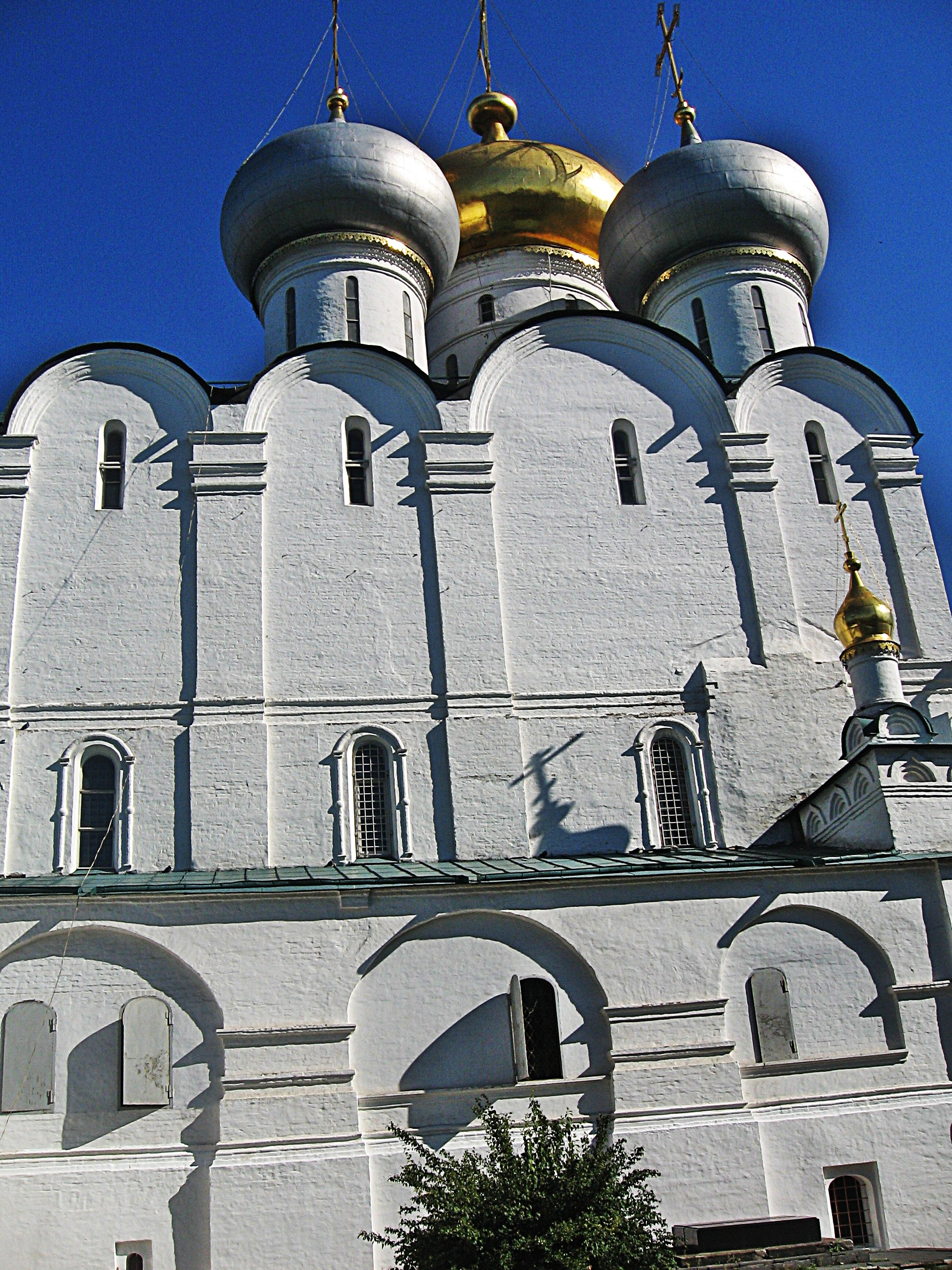 Novodevichy Convent